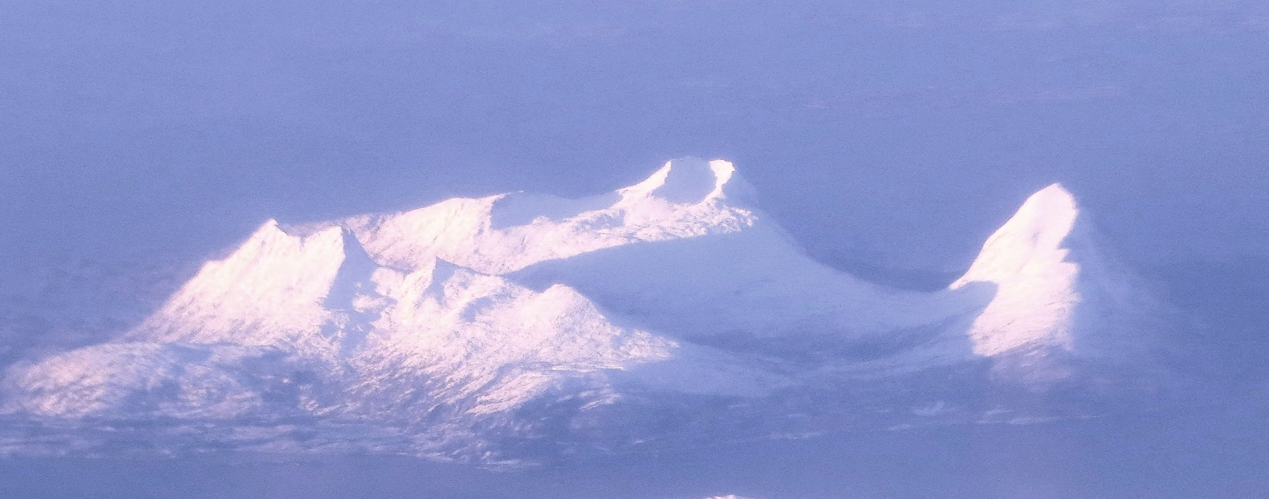 Aerial photo of Tomma in Winter